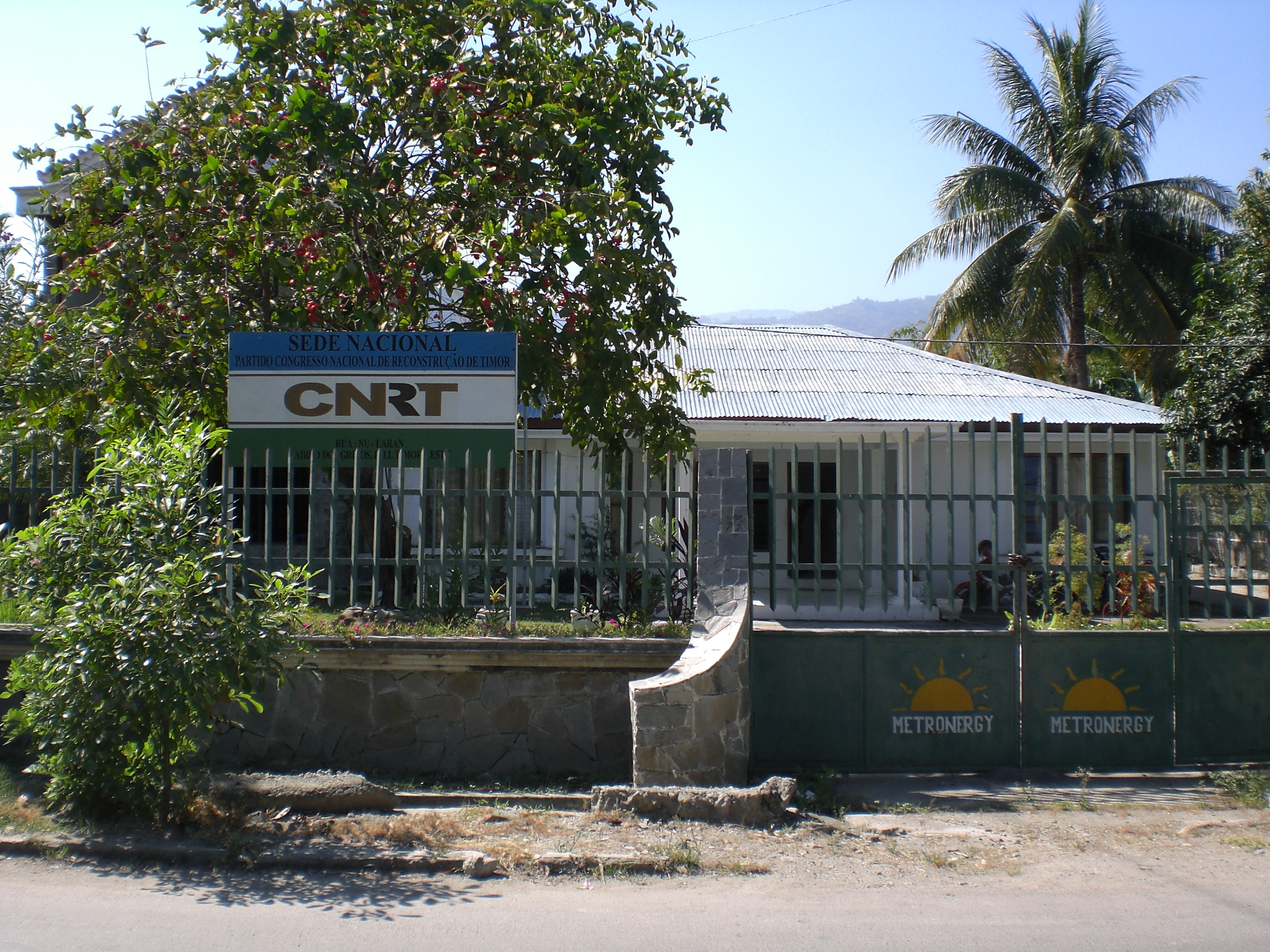 Congresso Nacional da Reconstrução Timorense building in Dili/timor-Leste